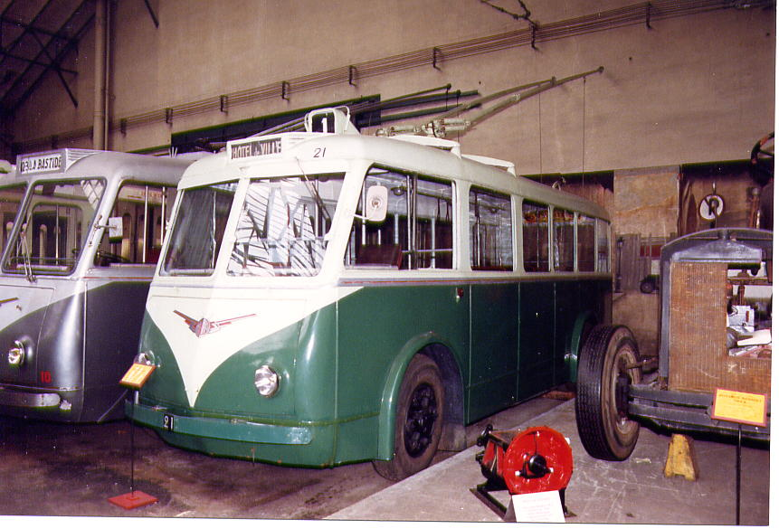 Two Vetra trolleybuses at the Musée des transports urbains, interurbains et ruraux (the AMTUIR collection), in Paris. At left is Limoges 10, a 1943 CB60, and in the center of this photo is former Poitiers trolleybus 21, a 1939 CS35.